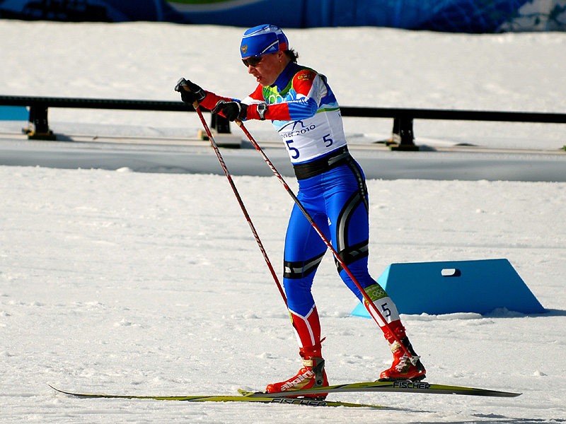 Irina Khazova at the Vancouver 2010 Olympics.